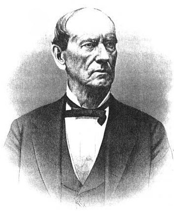 Nahum Stetson (1807-1894), leading iron businessman from Bridgewater, Massachusetts